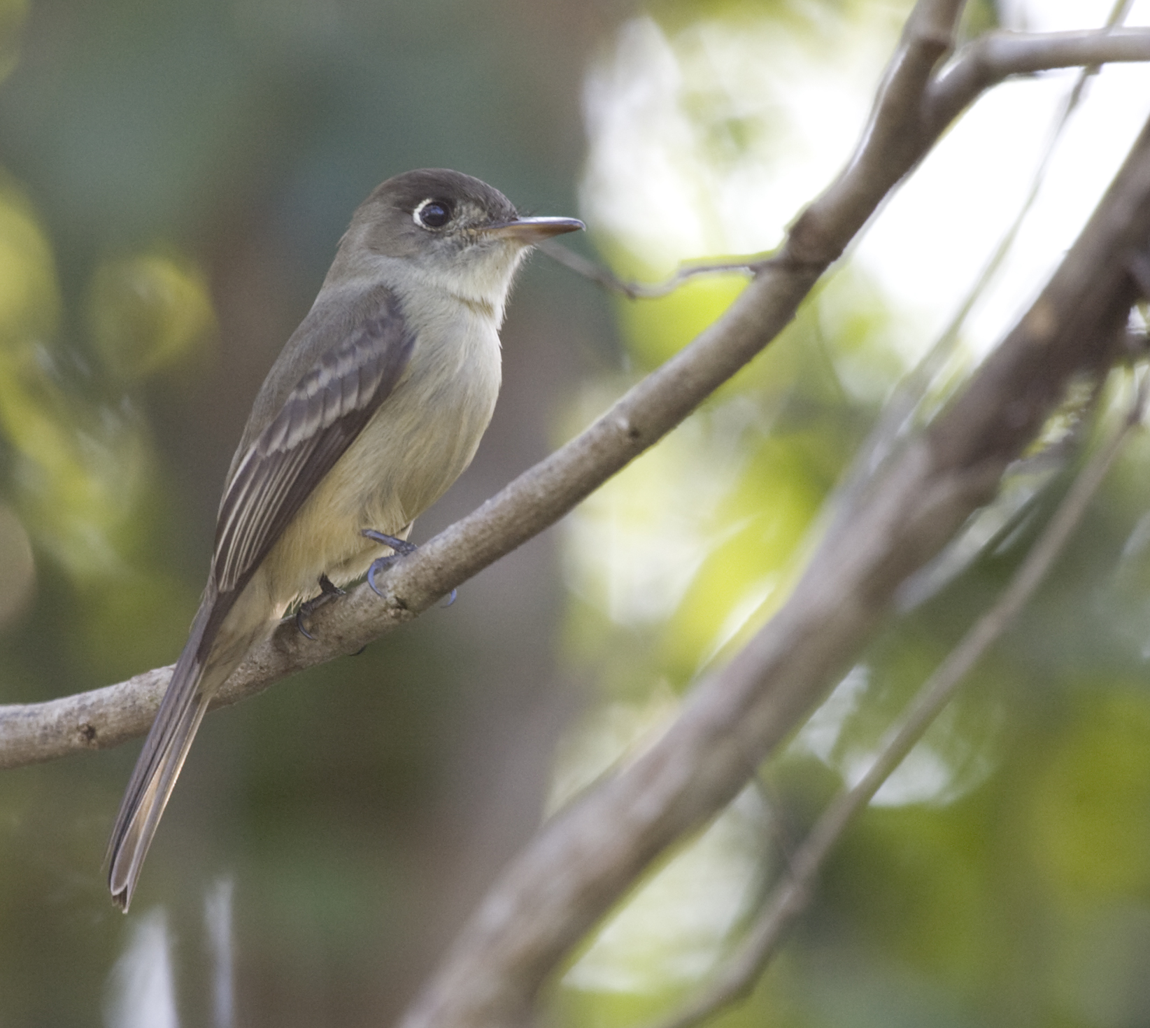 A Cuban Pewee in Parque Nacional La Guira, Pinar del Rio Province, Cuba.